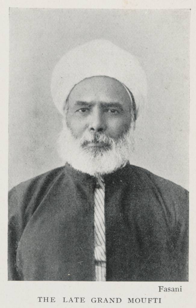 Picture of a Grand Moufti.